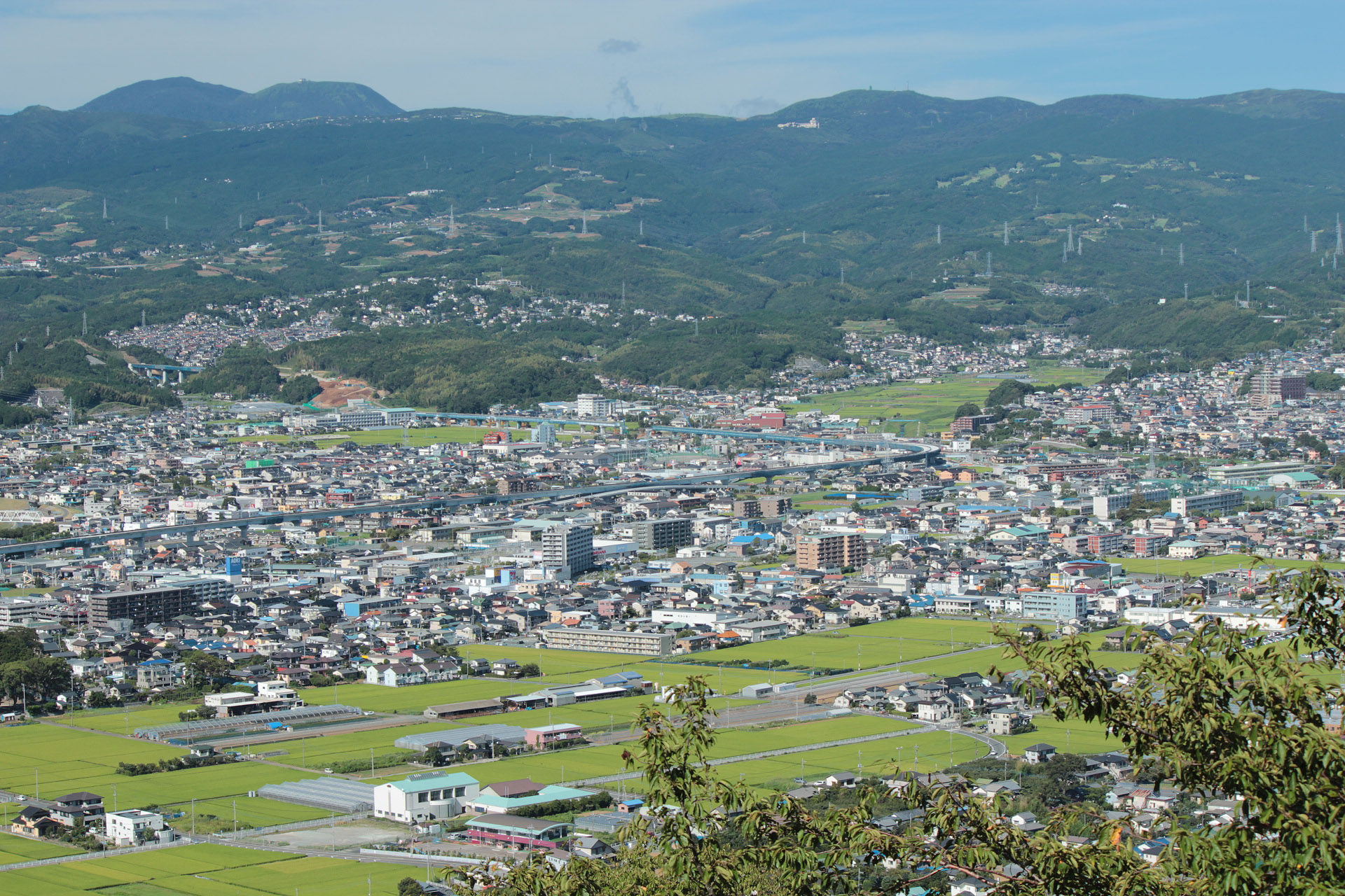 Downtown of Kannnami as seen from the southwest.